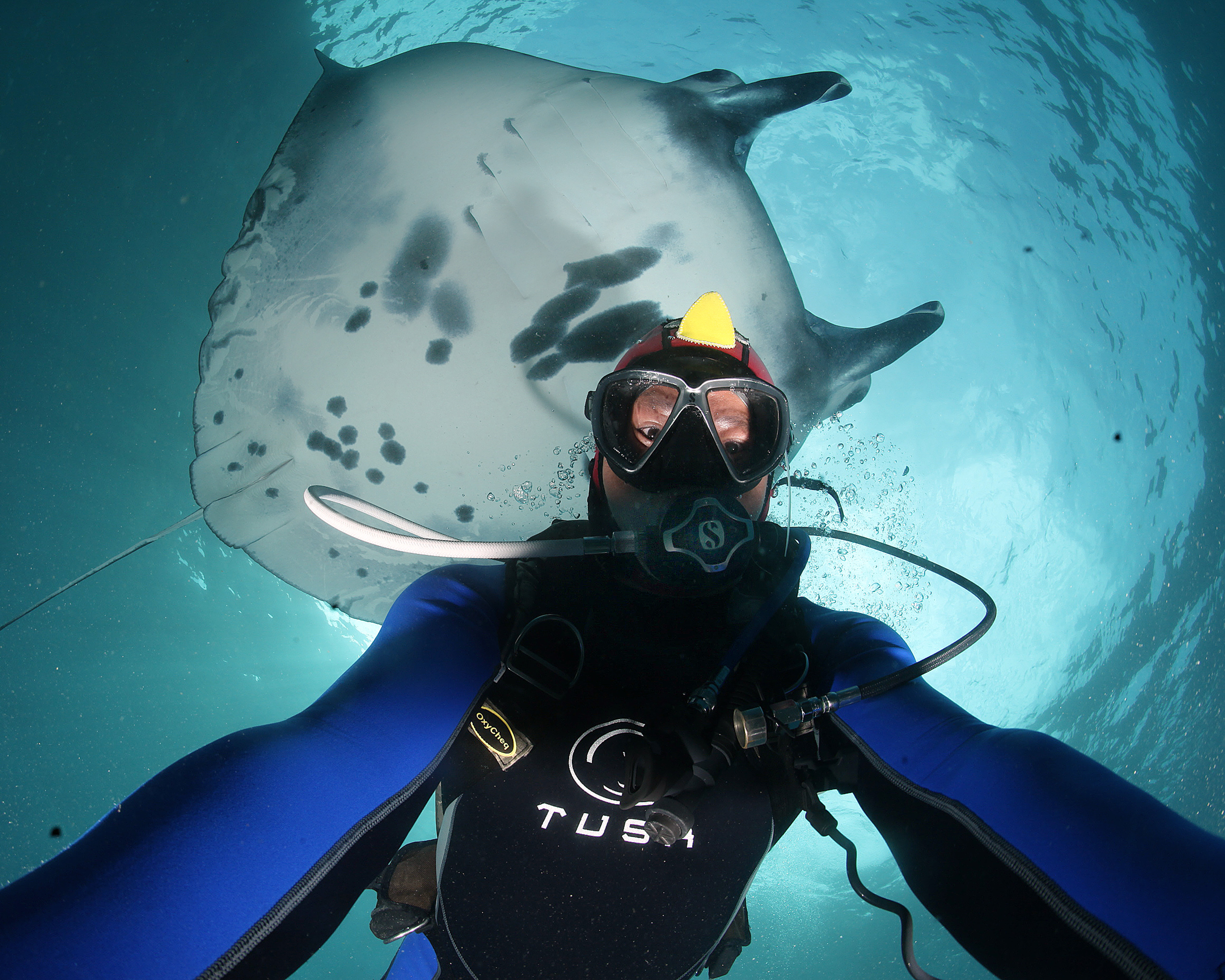 Underwater Photography work in Nusa Penida, Bali, Indonesia.